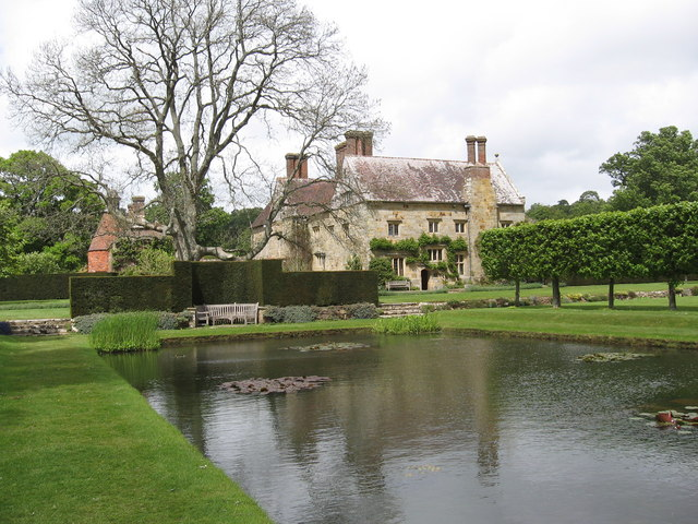 Bateman's, National Trust